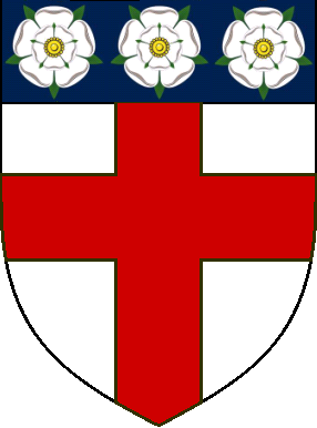 North Riding of Yorkshire coat of arms.